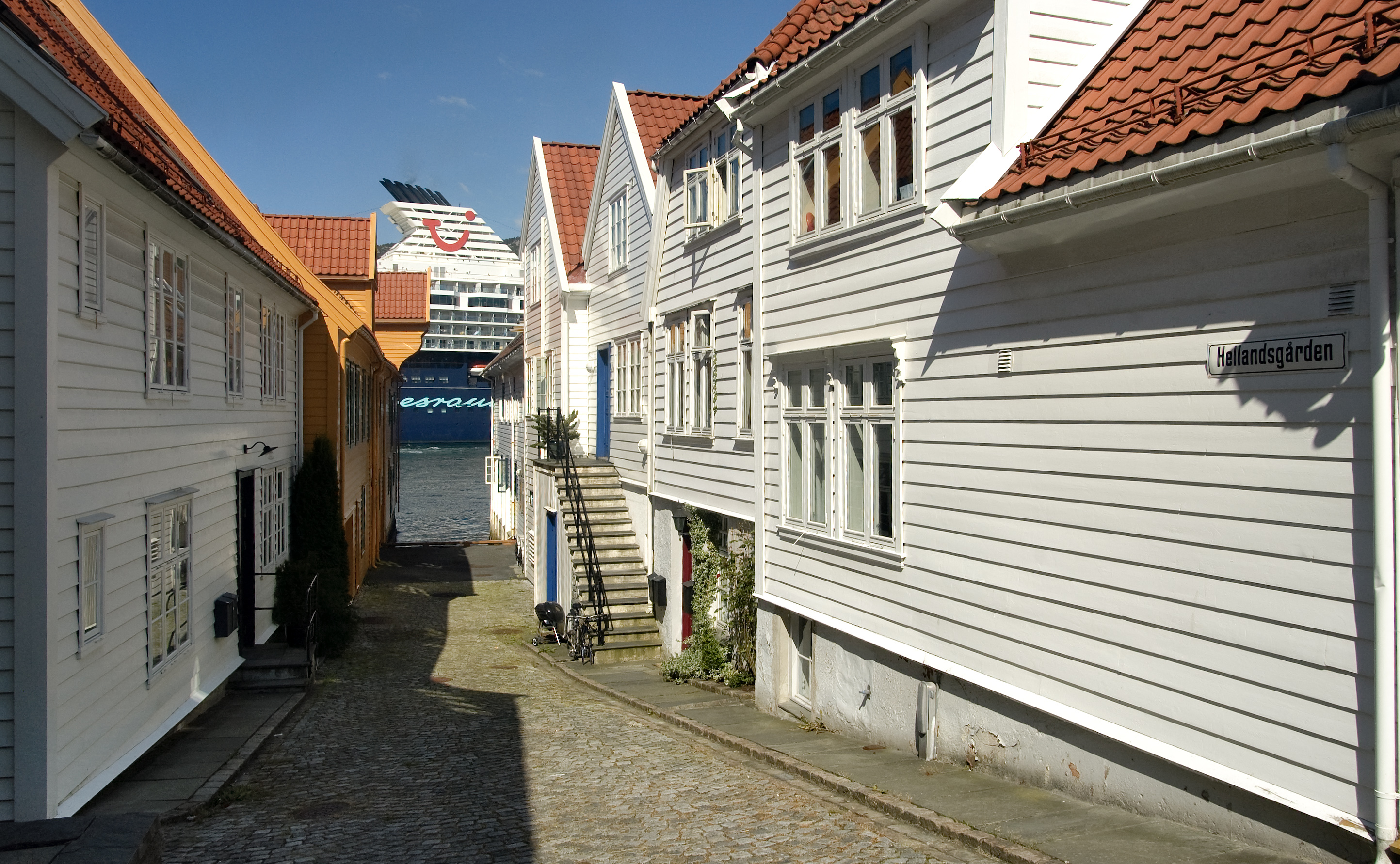 Hellandsgården, a street in Bergen, Norway.